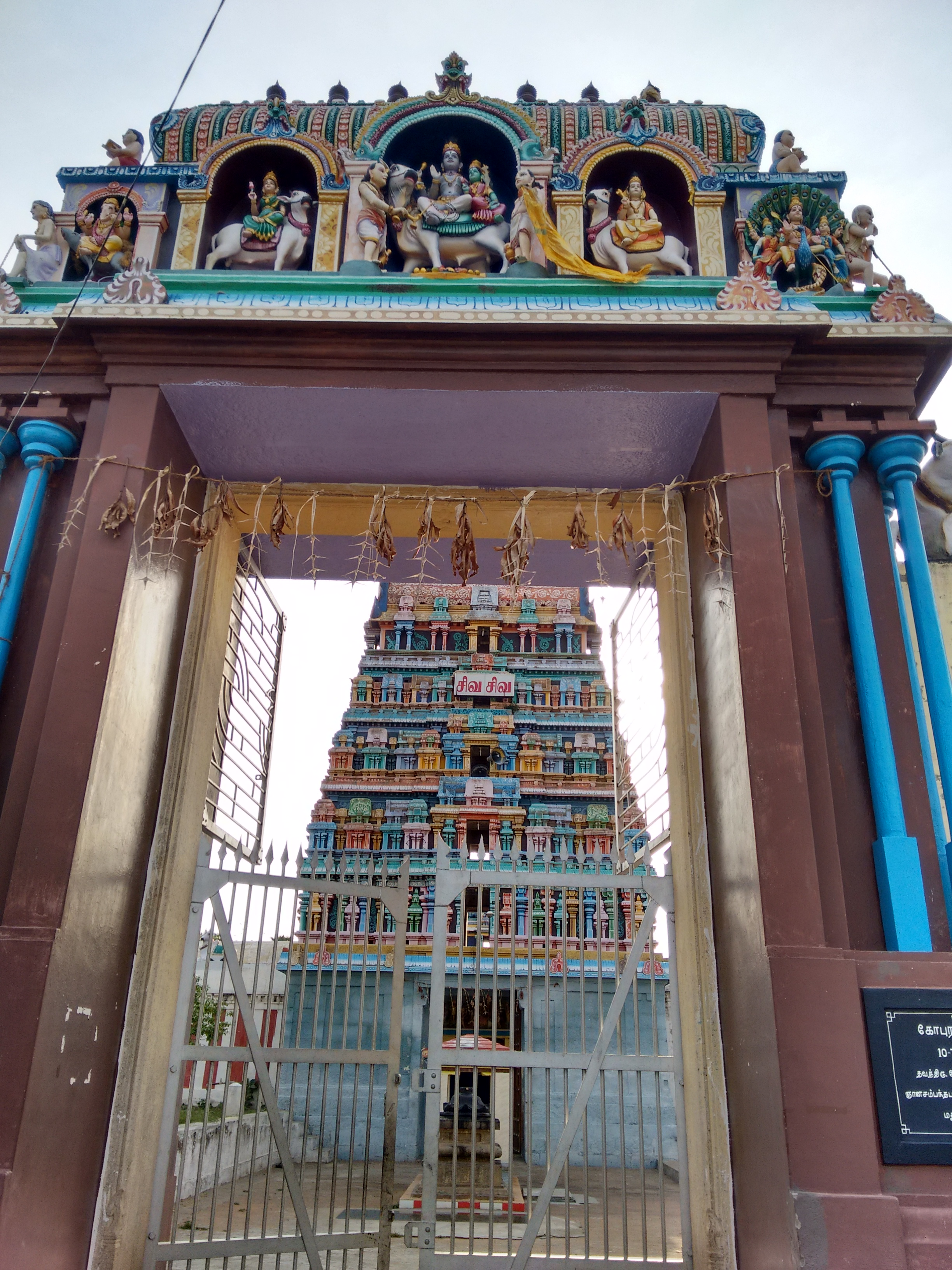 உடையார்கோயில்